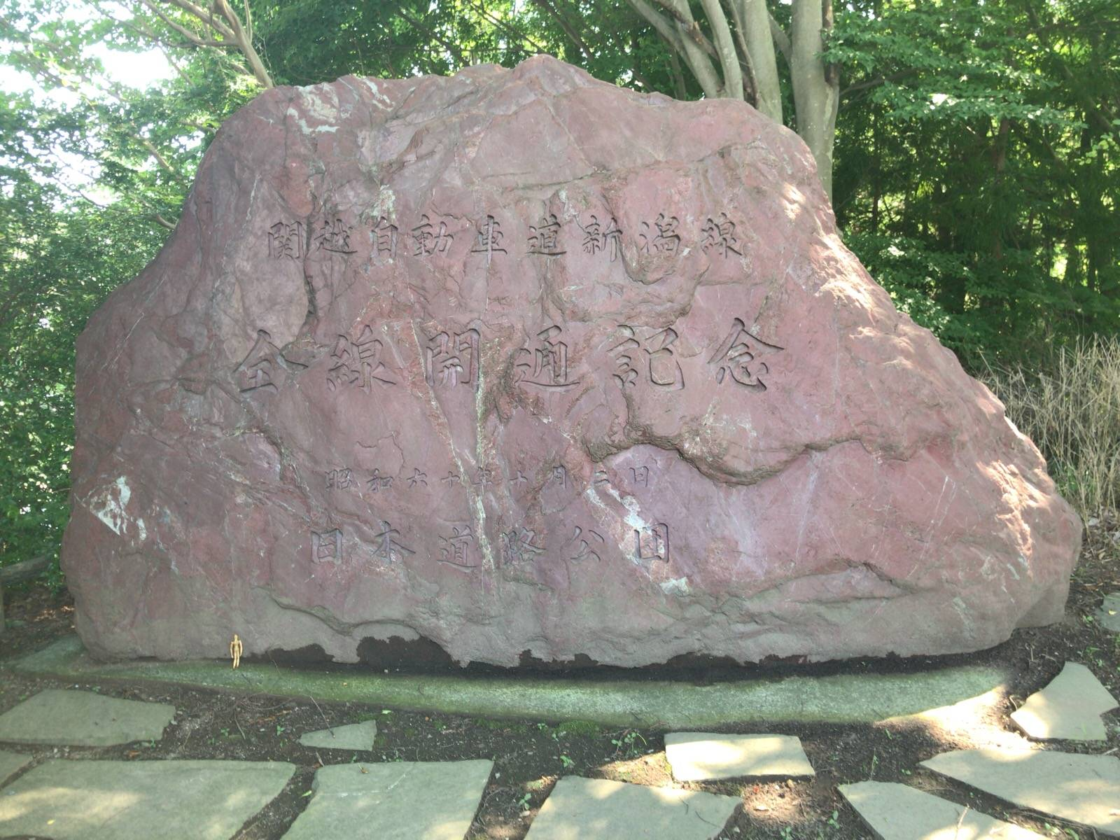 Kanetsu Expressway Niigata Line completed ｍonument